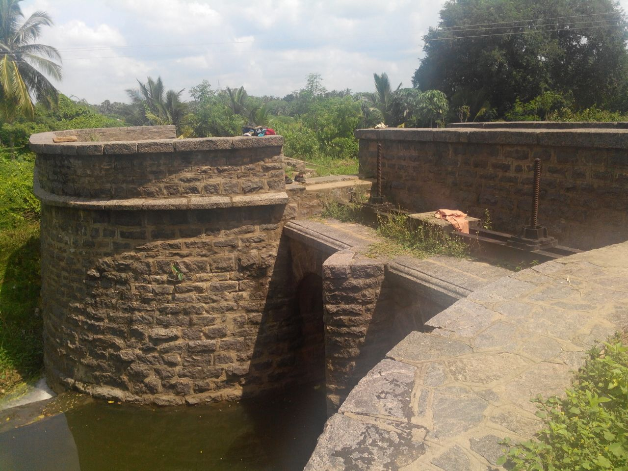 நெடுங்கல் ஊரில் உள்ள நெடுங்கல் அணை